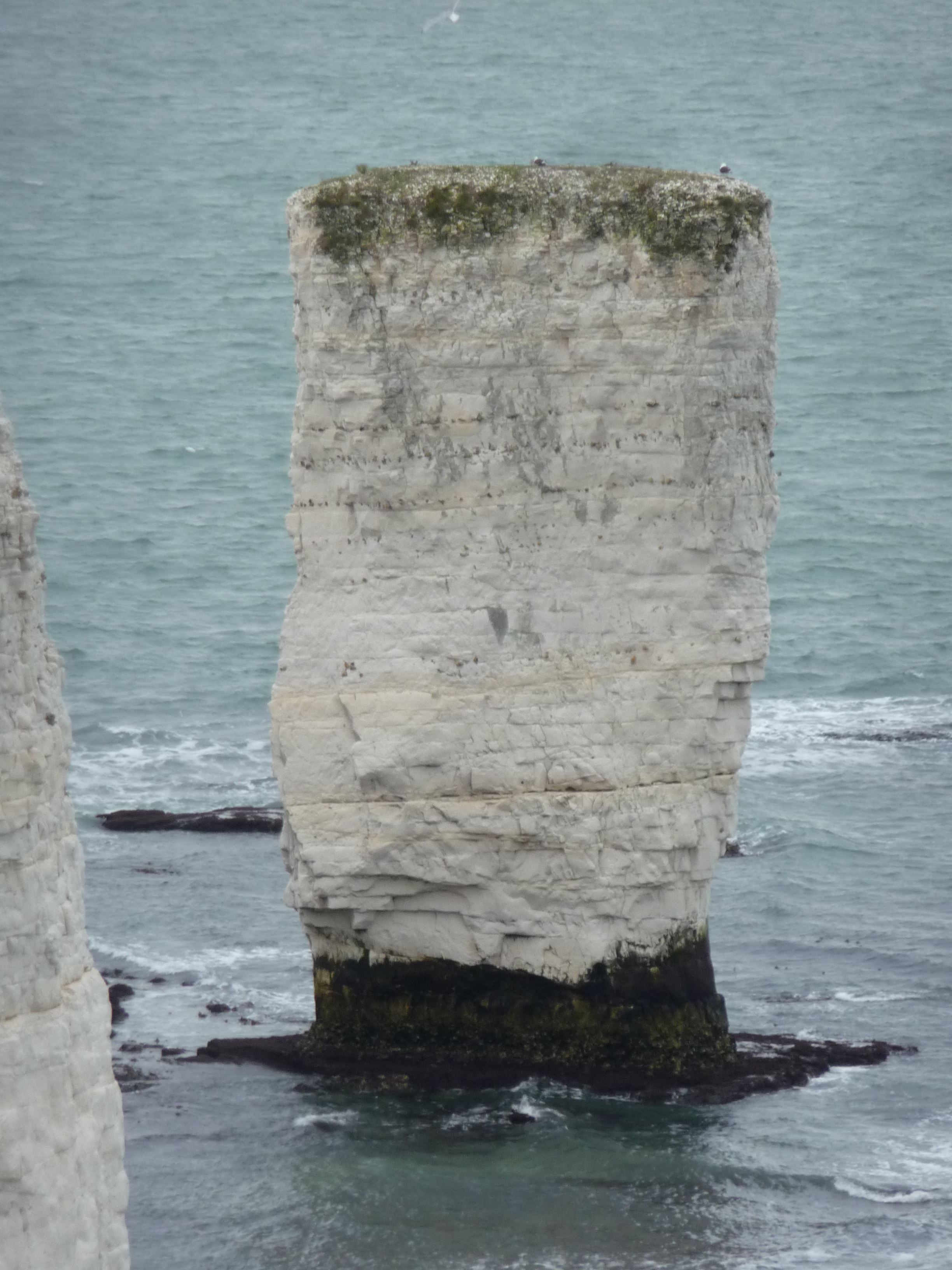 Purbeck : Old Harry Legend says that the Devil (traditionally known euphemistically as "Old Harry") had a sleep on the rocks. Another possible source of the name is that the rocks were named after a famous Poole pirate, Harry Paye, who used to store his contraband nearby. Old Harry is threatened by erosion, particularly at the foot of the rock.